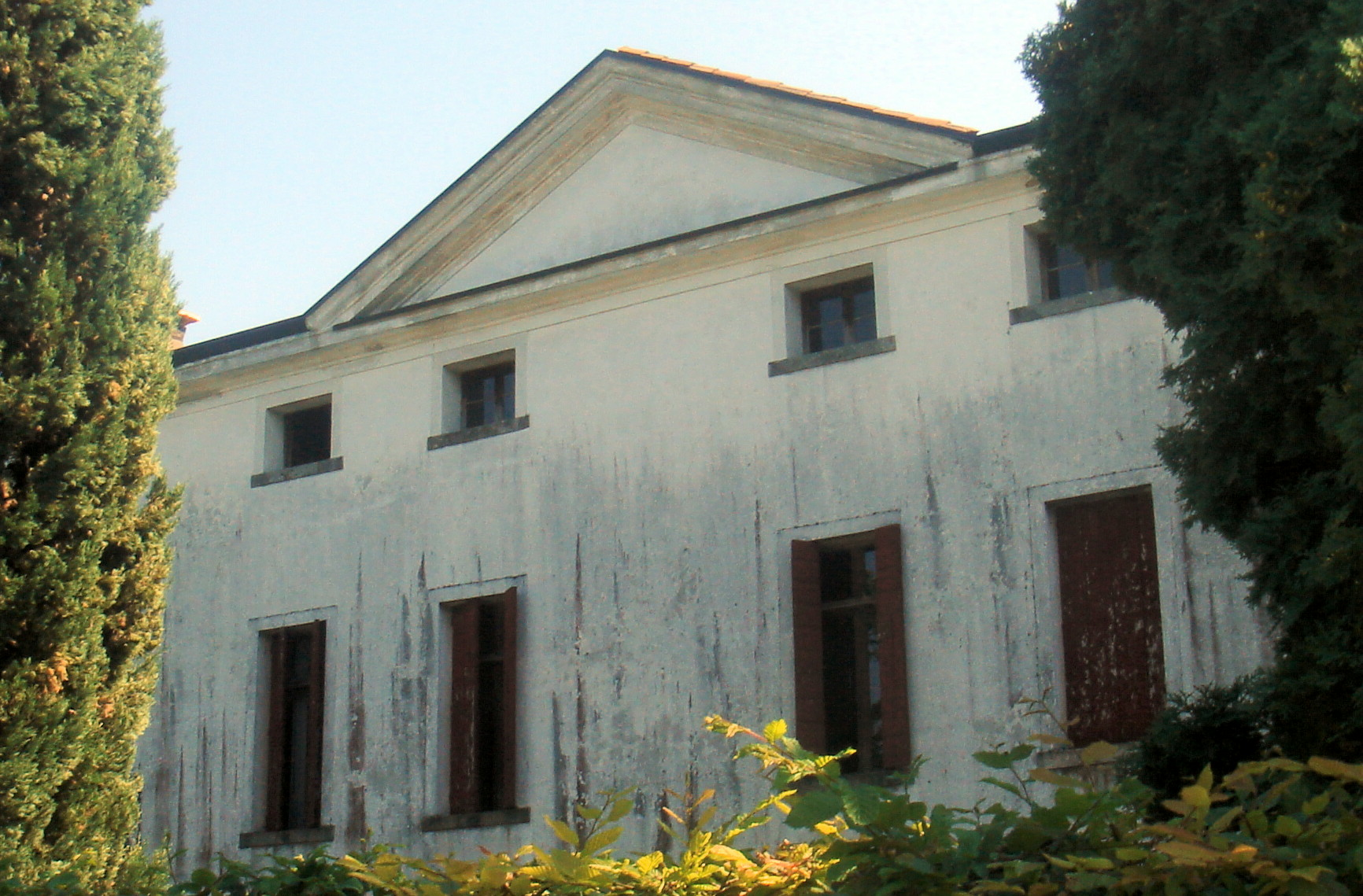 Gaiarine (TV)